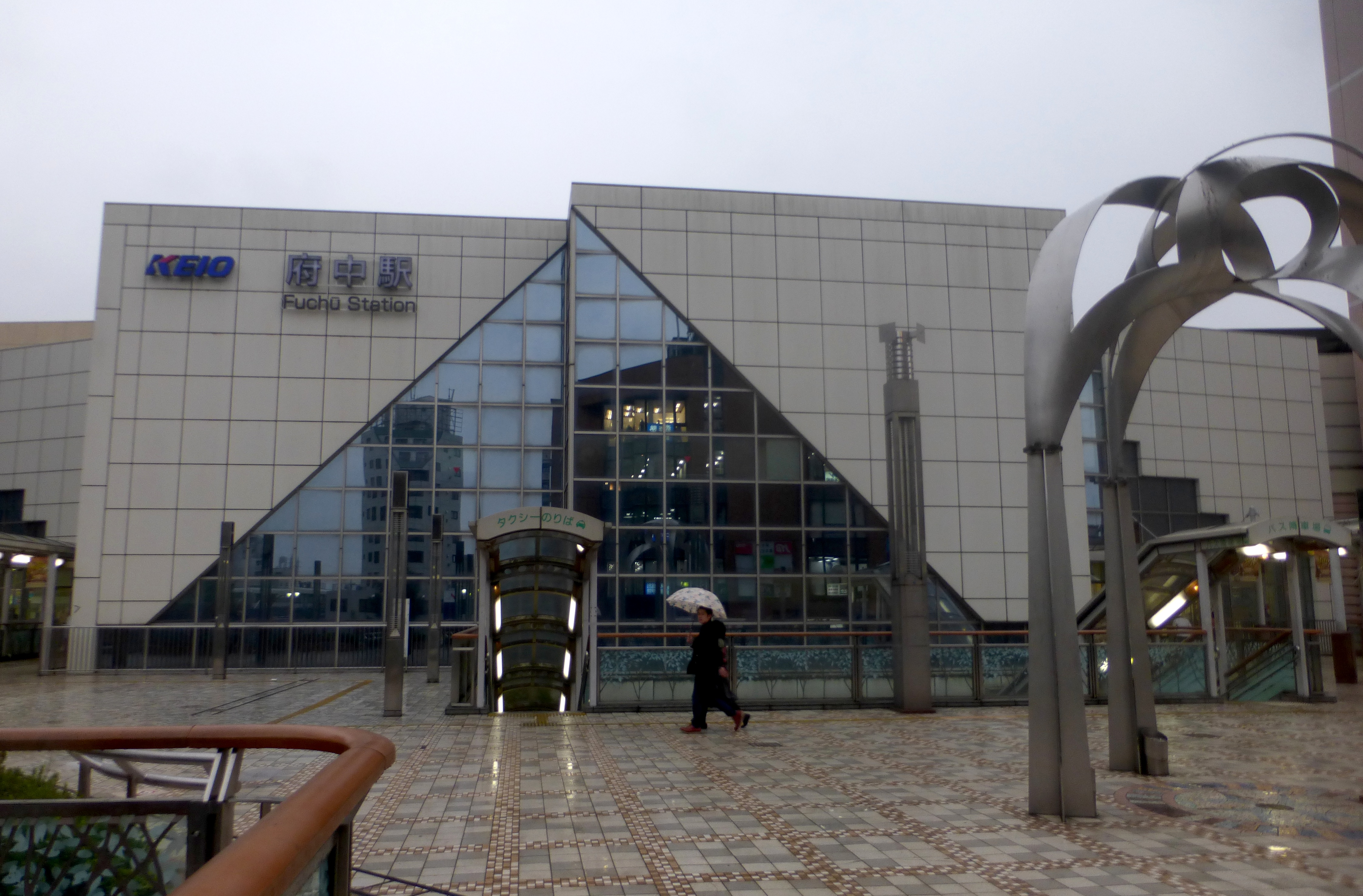 The station building and entrance at Fuchu Station on the Keio Line